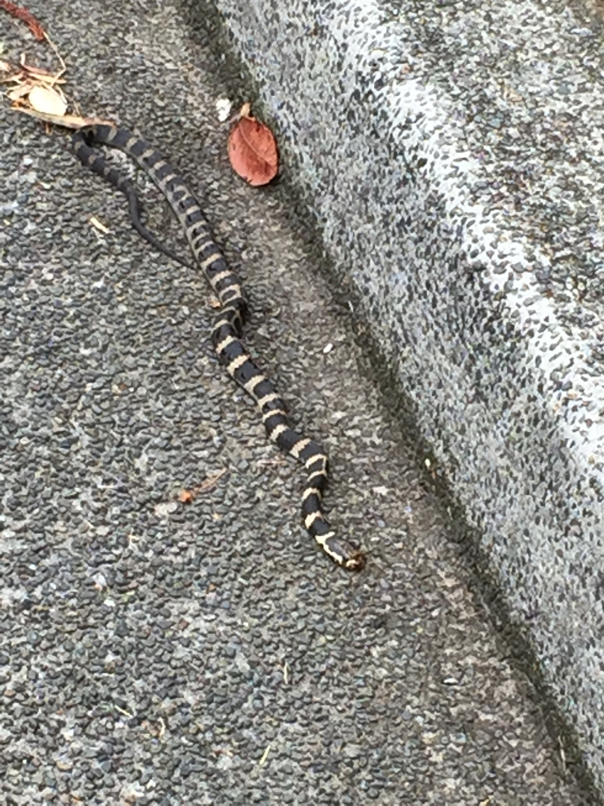 Stephen's Banded Snake on Roadside, Fingal Bay, Australia